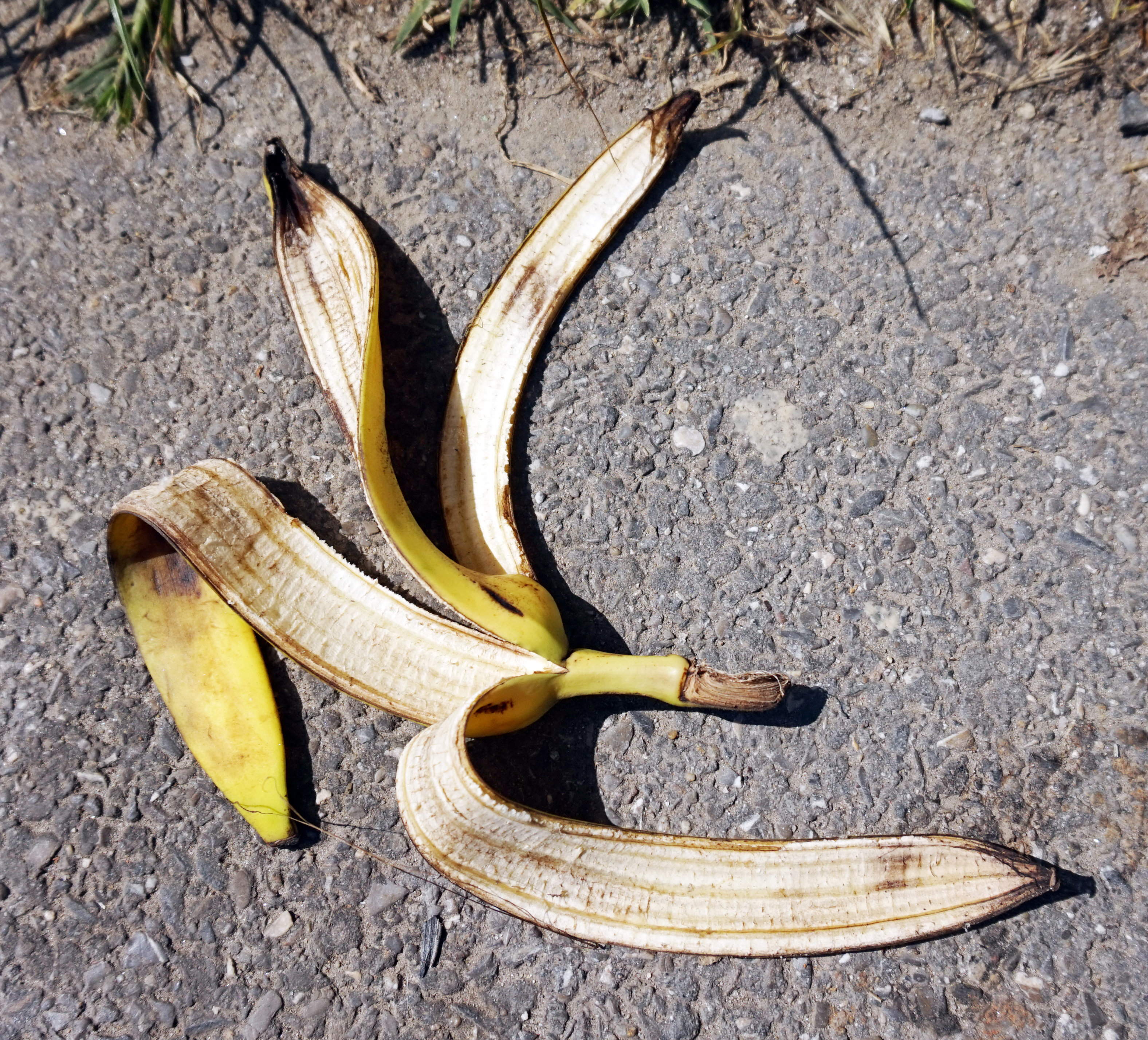 Banana peel on street in Bucharest. This photograph was taken with a Sony Alpha a5000.